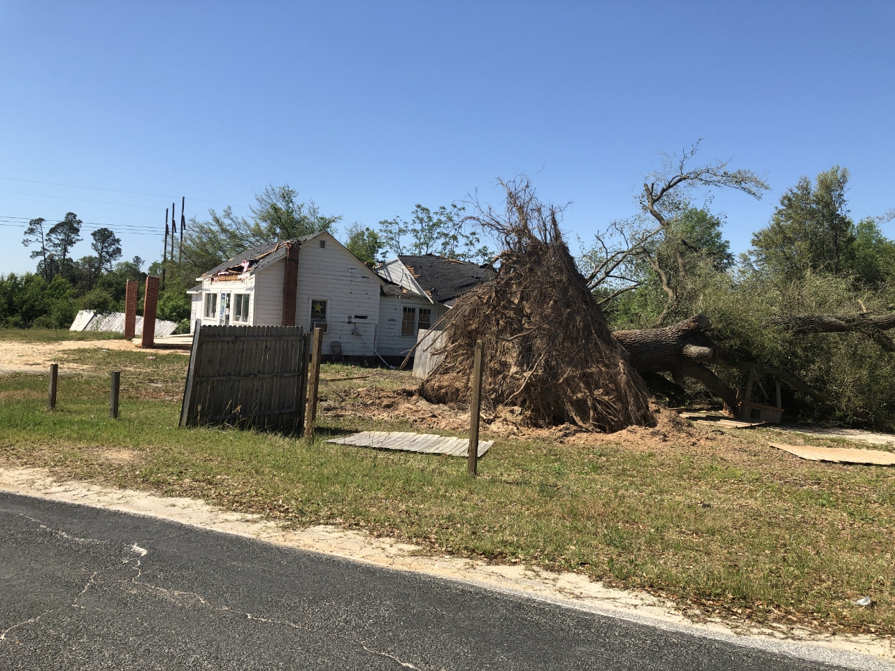 Damage near Wallace, South Carolina, caused by a microburst on the morning of April 13, 2020.